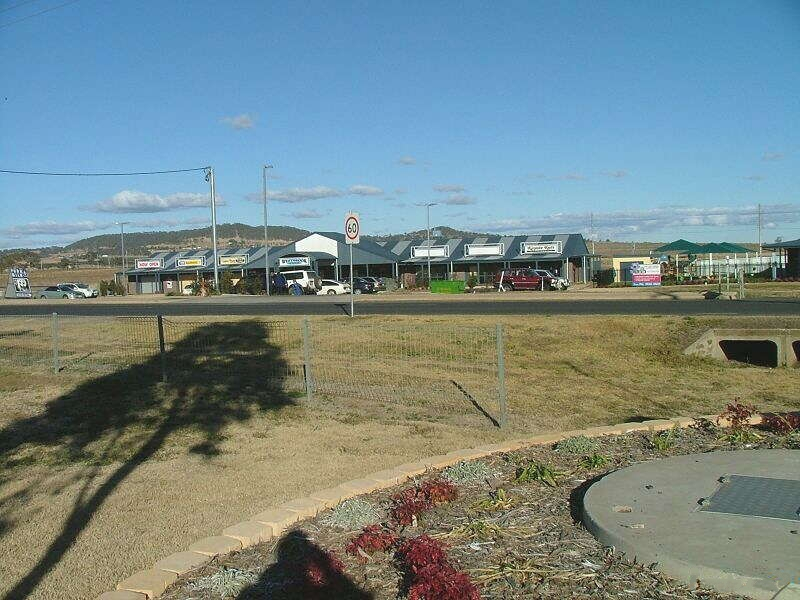 Shopping centre main street westbrook 4350 queensland